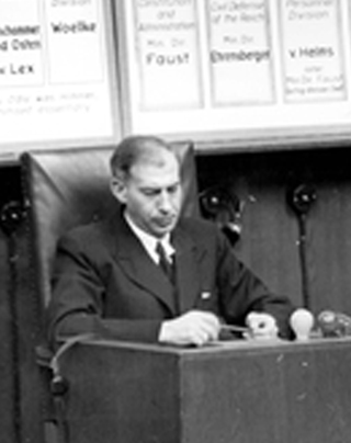 Wilhelm Stuckart at the Ministries Trial Nuremberg, Germany, 01/10/1948